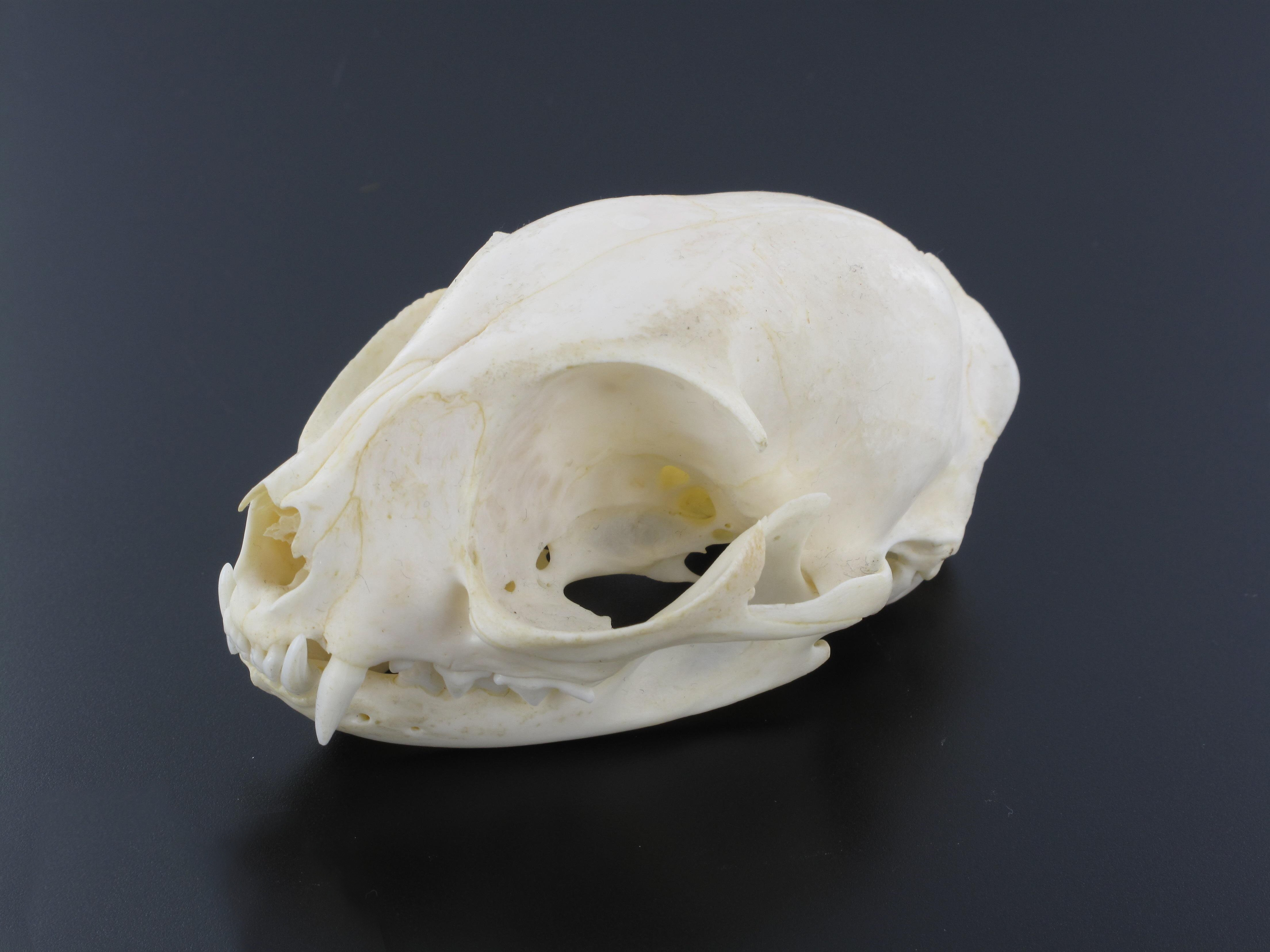 Image of a cat's skull taken with a PackshotCreator photo studio by Creative Tools AB.